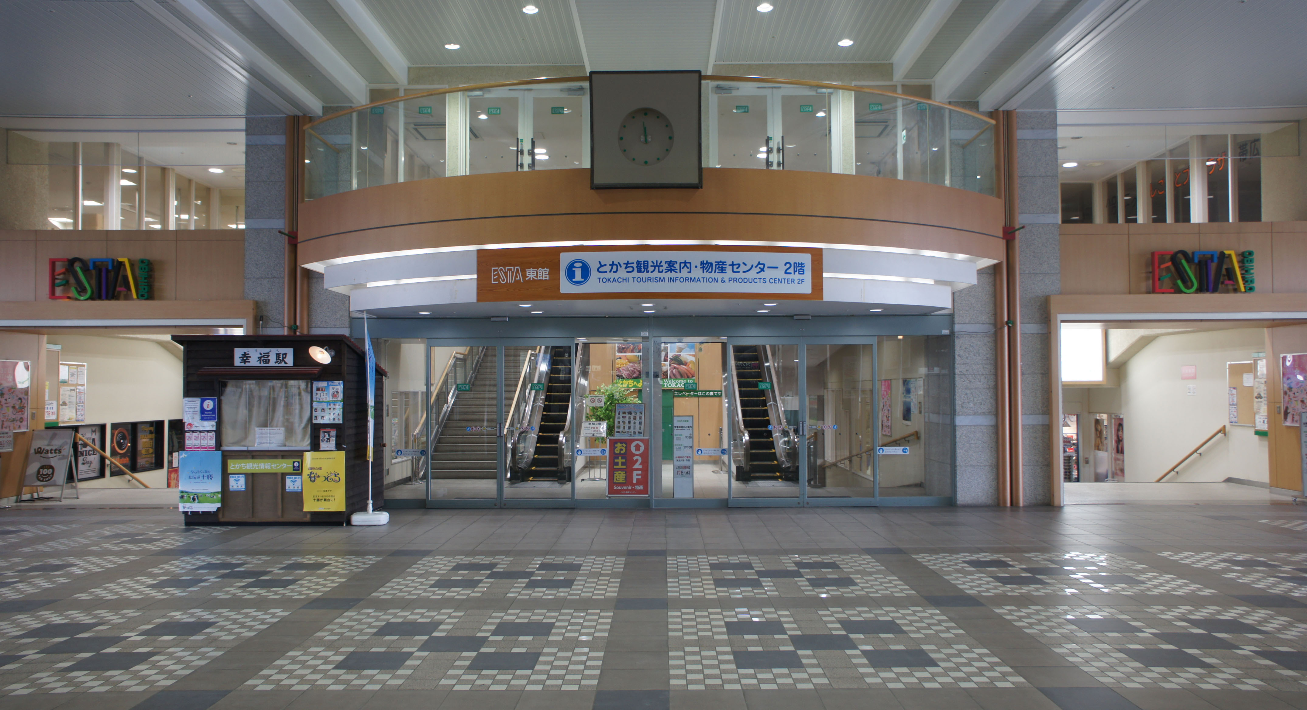 East building Entrance of Esta Obihiro Sony NEX-3 + E 18-55mm F3.5-5.6 OSS